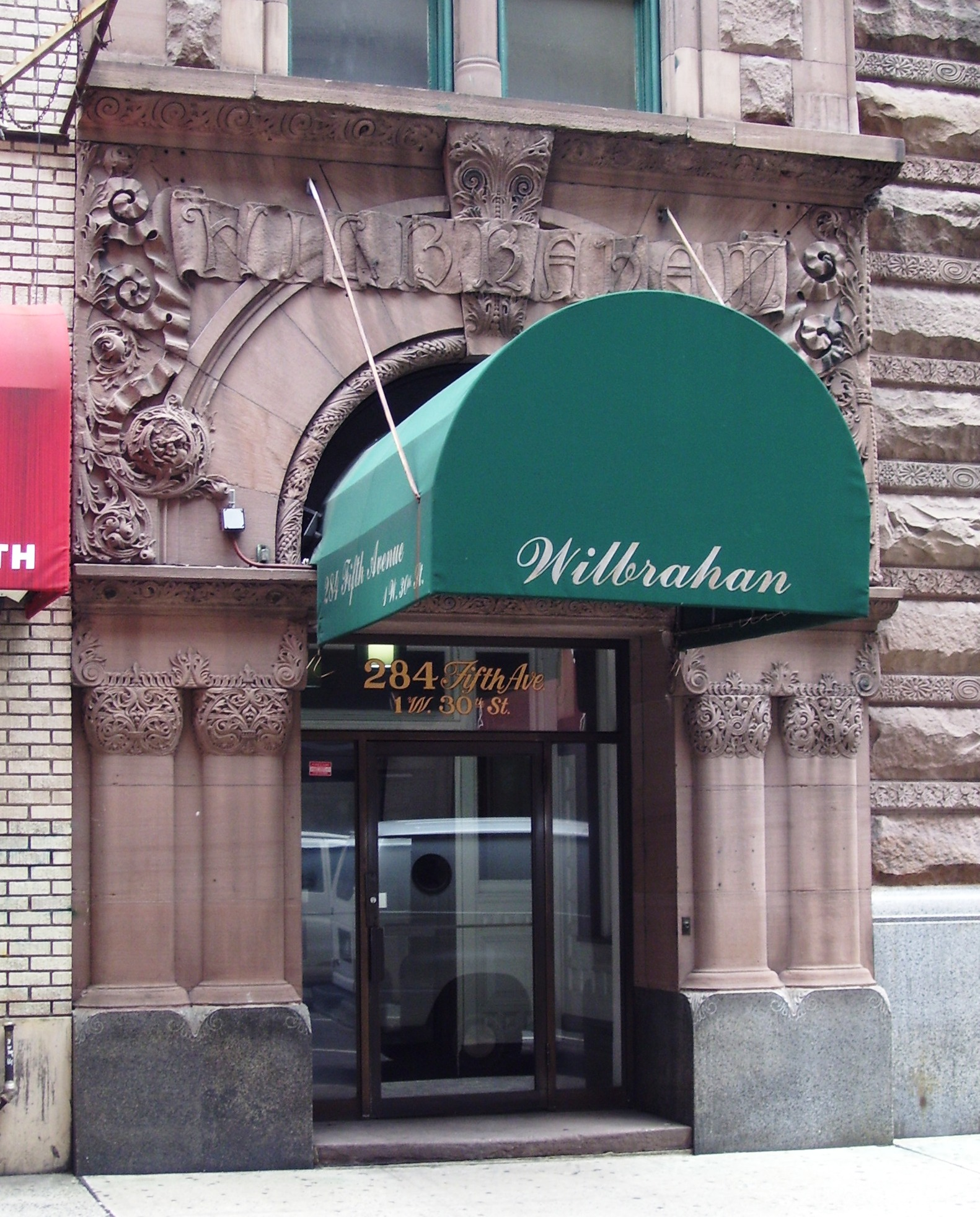 The Wilbraham at 1 West 30th Street or 284 Fifth Avenue in the NoMad neighborhood of Manhattan, New York City was built in 1888-90, and designed by David & John Jardine in Romanesque Revival style as "bachelor flats", which were converted to apartments in the mid-1930s. (Source: Guide to NYC Landmarks (4th ed.))